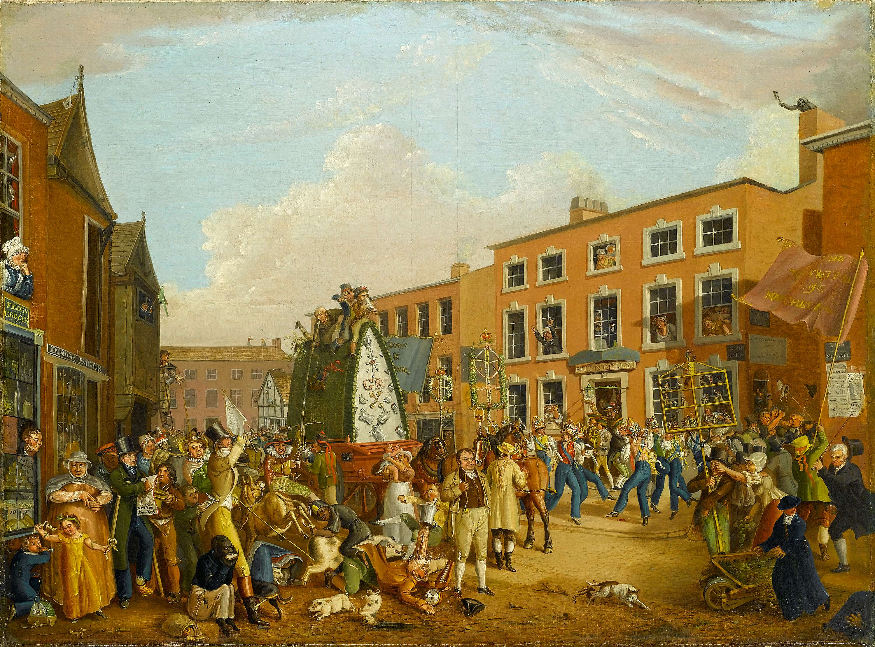 Street scene showing a rush-bearing procession in Manchester